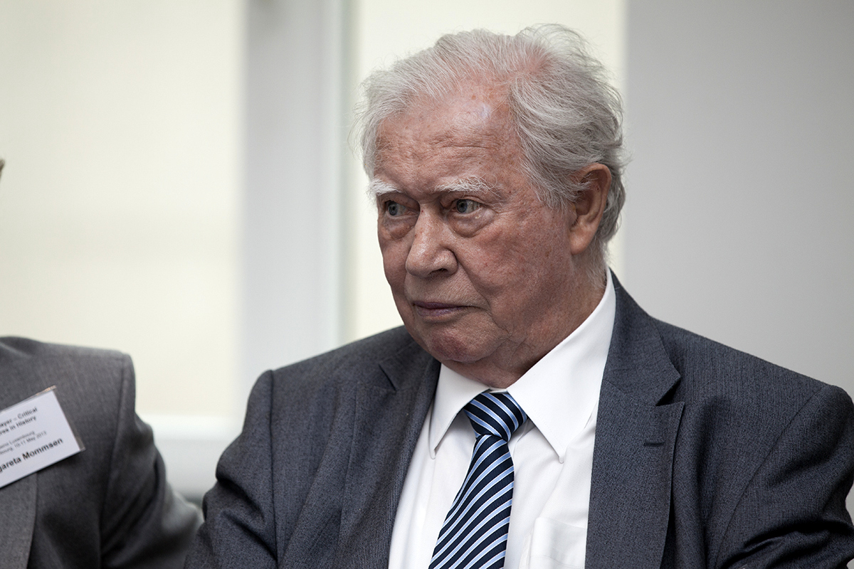 Professor Hans Mommsen, German Historian, at the Luxembourg Institute for European and International Studies conference Arno J. Mayer – Critical Junctures in Modern History, 10-11 May 2013, Casino Luxembourg.